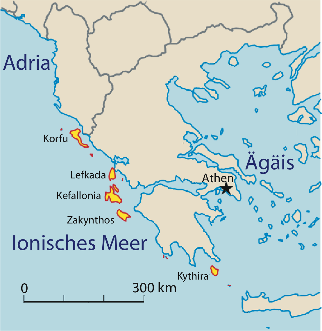 Position of Ionian Islands (german)